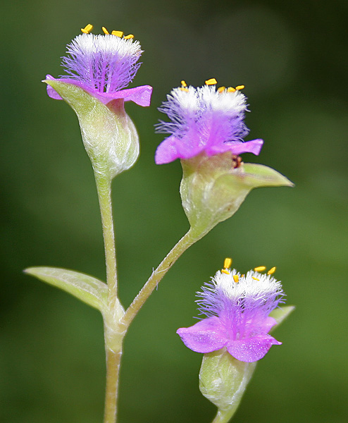 Nilwanti or Fluffy Cat Ears Cyanotis fasciculata in Hyderabad , India.